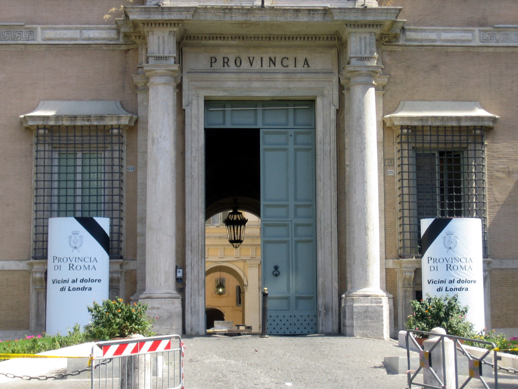 Palazzo Valentini is the seat of the provincial government of Rome. Here it sports posters expressing pain at the London bombings. "The Province of Rome. Closed due to the suffering of London."